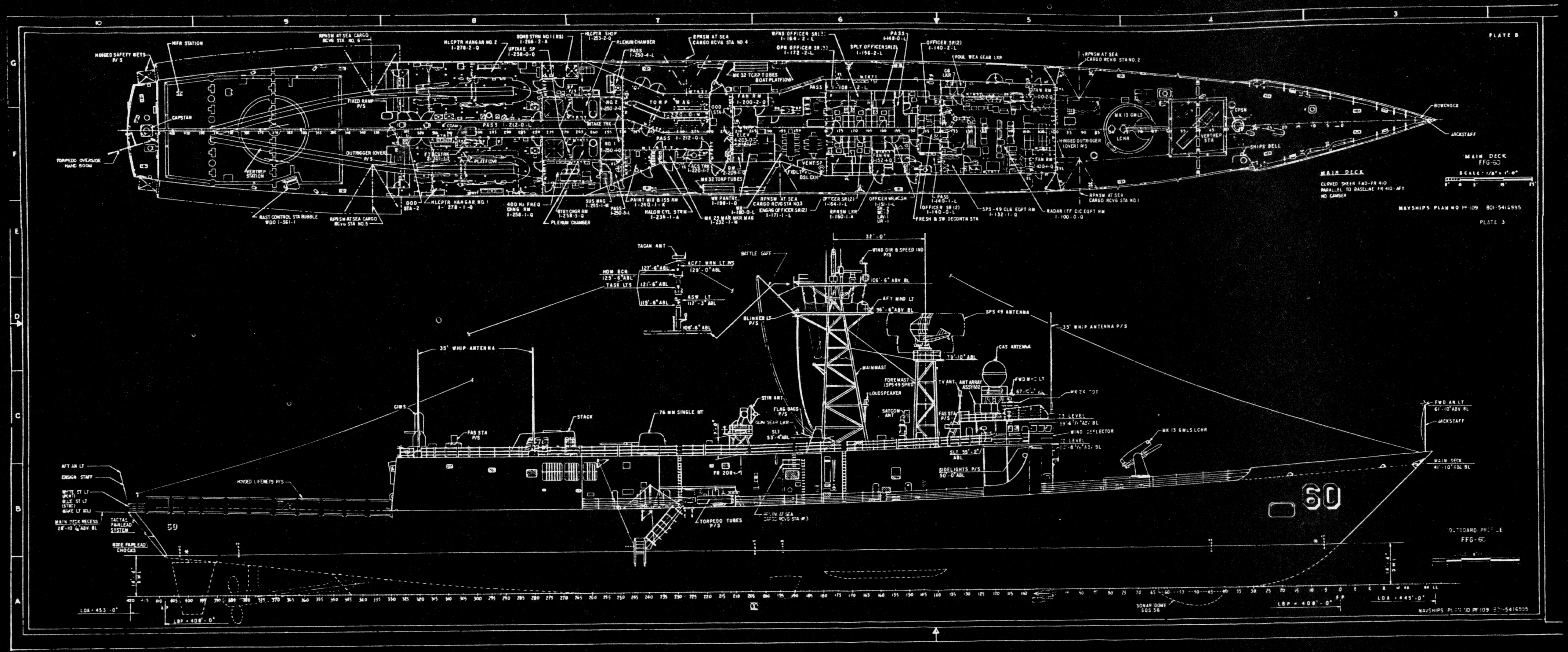 Outboard profile of the U.S. Navy frigate USS Rodney M. Davis (FFG-60) from official program produced for the commissioning of Rodney M. Davis on 9 May 1987 in Long Beach, California (USA).